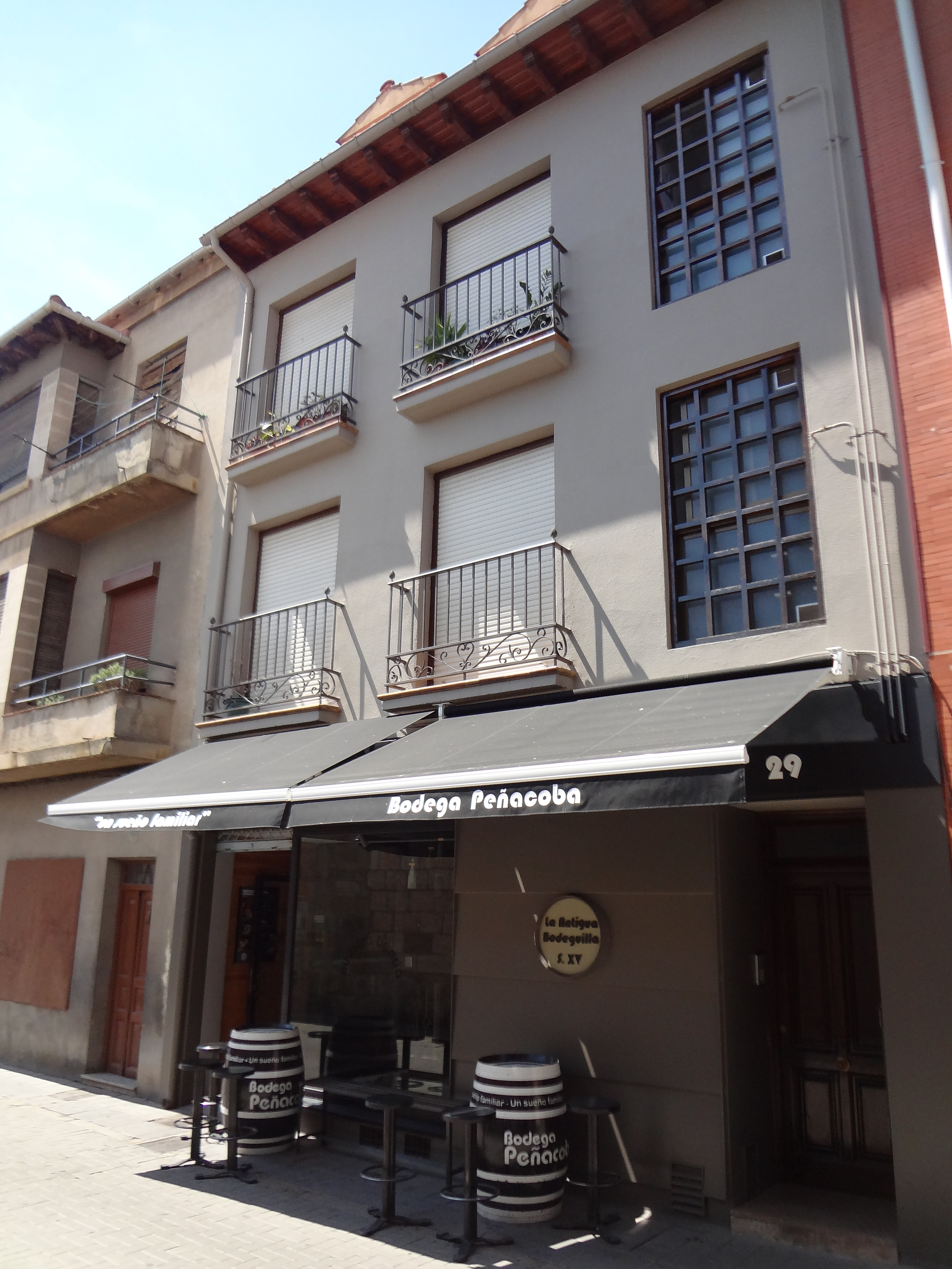 (Bodega Peñacoba, siglo XV Bar de tapas y restaurante) Aranda de Duero, España Photography by David Adam Kess